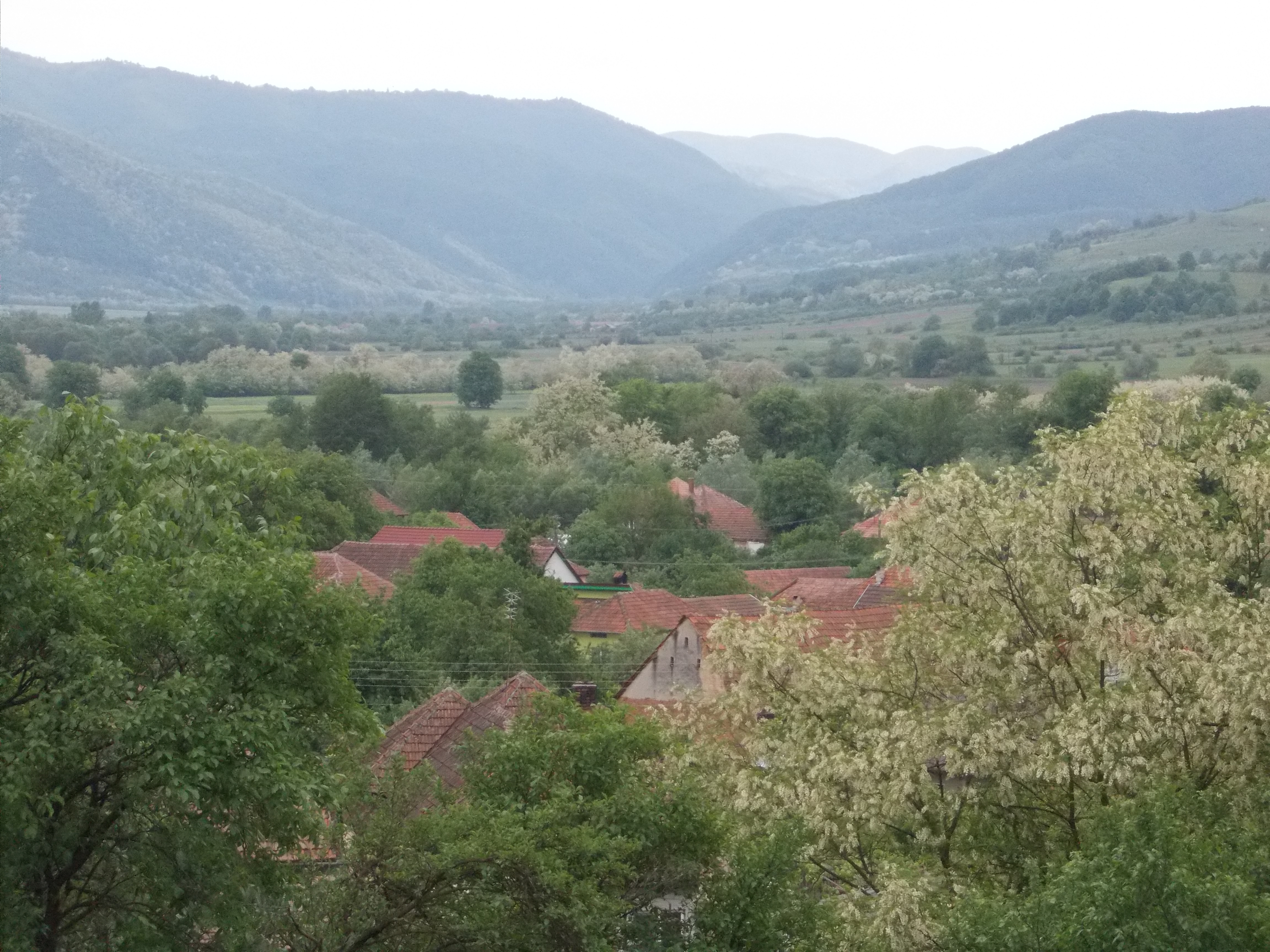 Chitid, Hunedoara County, Romania